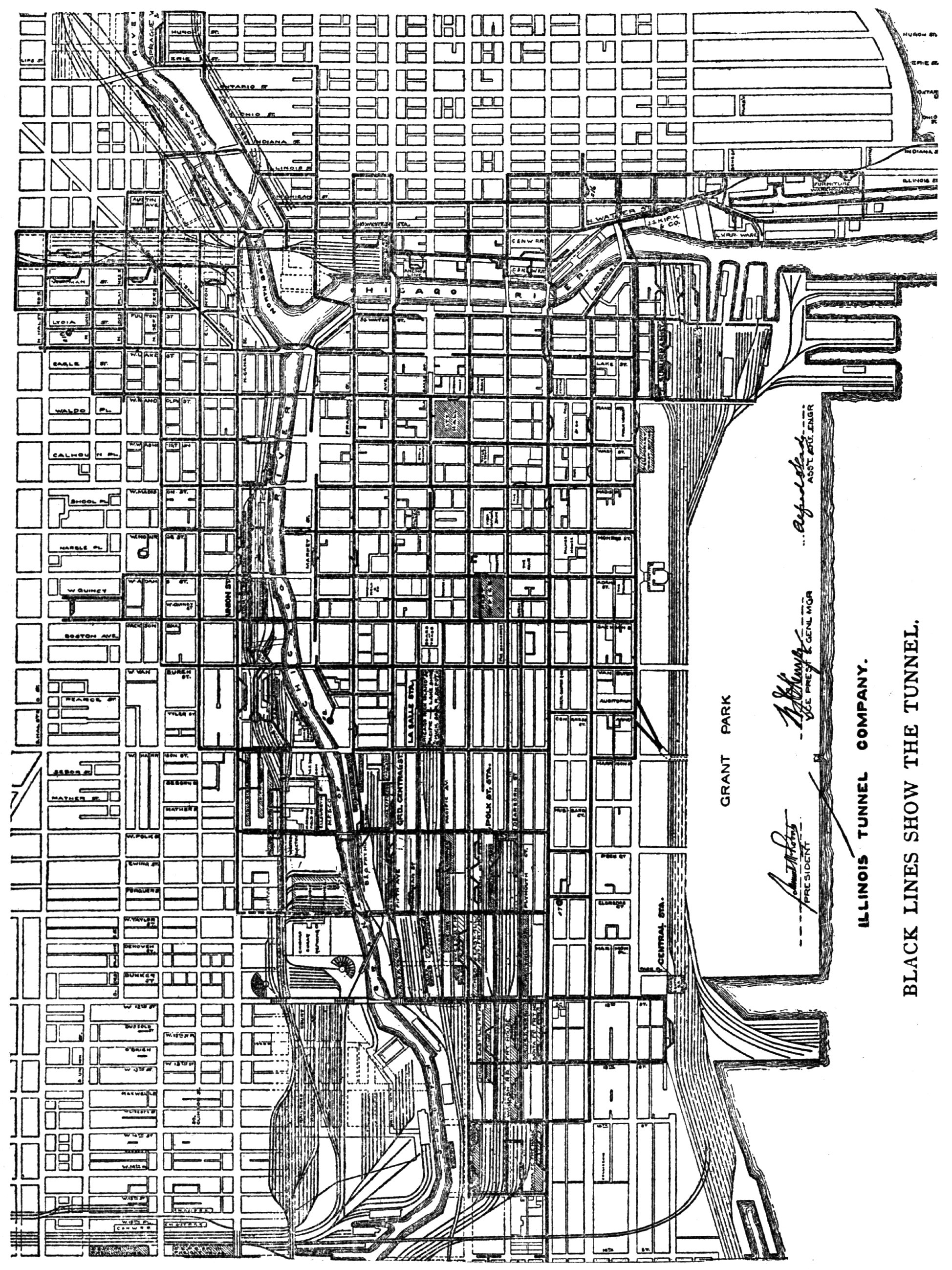 Original Caption (in image): "ILLINOIS TUNNEL COMPANY. BLACK LINES SHOW THE TUNNEL." Map of the Illinois Tunnel Company (later the Chicago Tunnel Company) freight subway as of 1910.